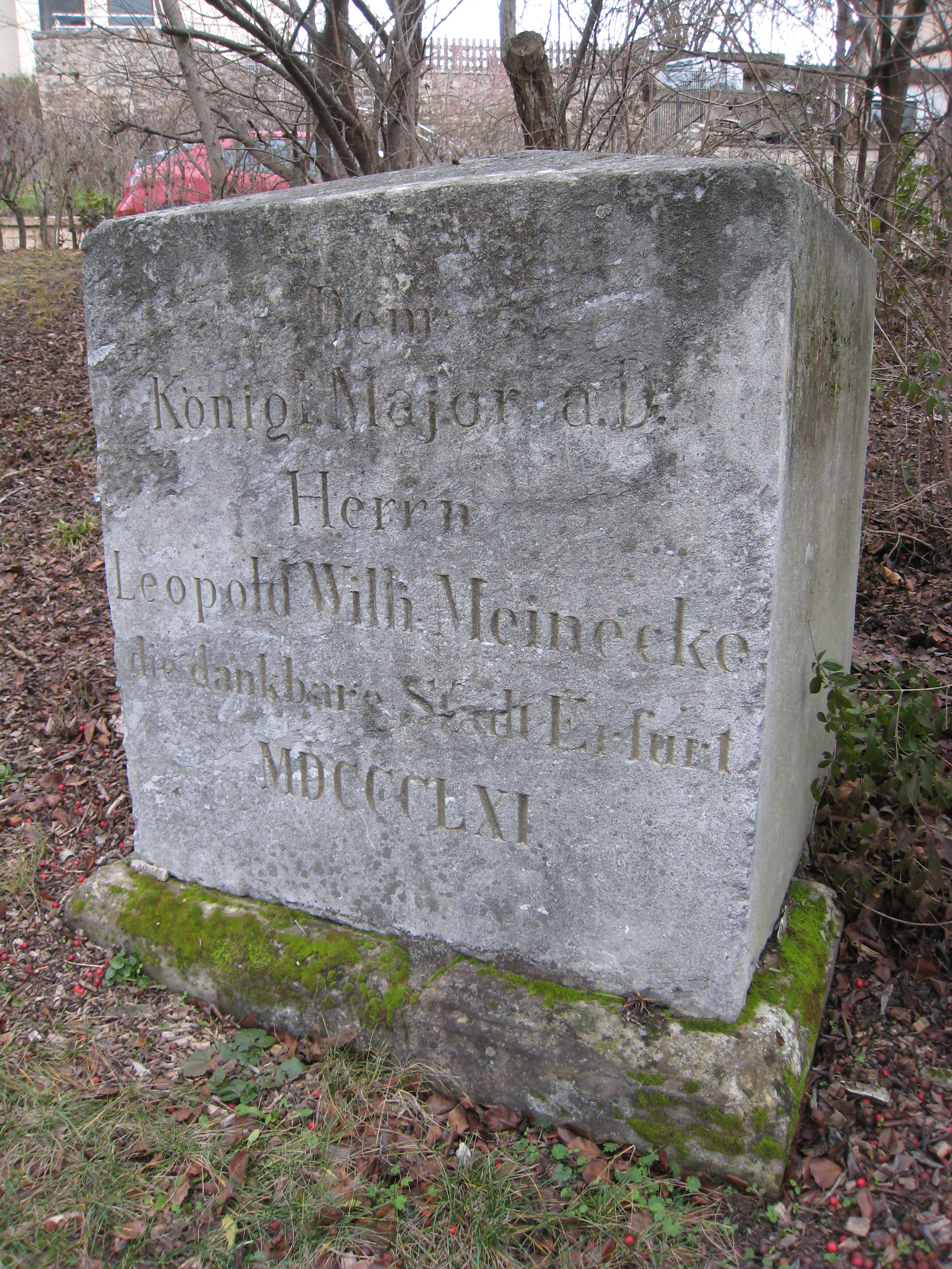 Monument for the historian Leopold Wilhelm von Meinecke (1789-1860) in Erfurt, Meineckestraße